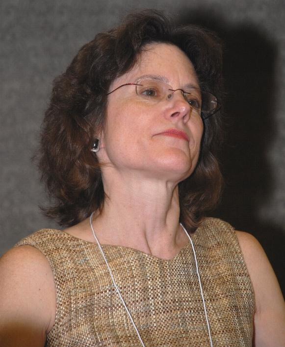 Anne D. Neal at the American Freedom Alliance conference at USC